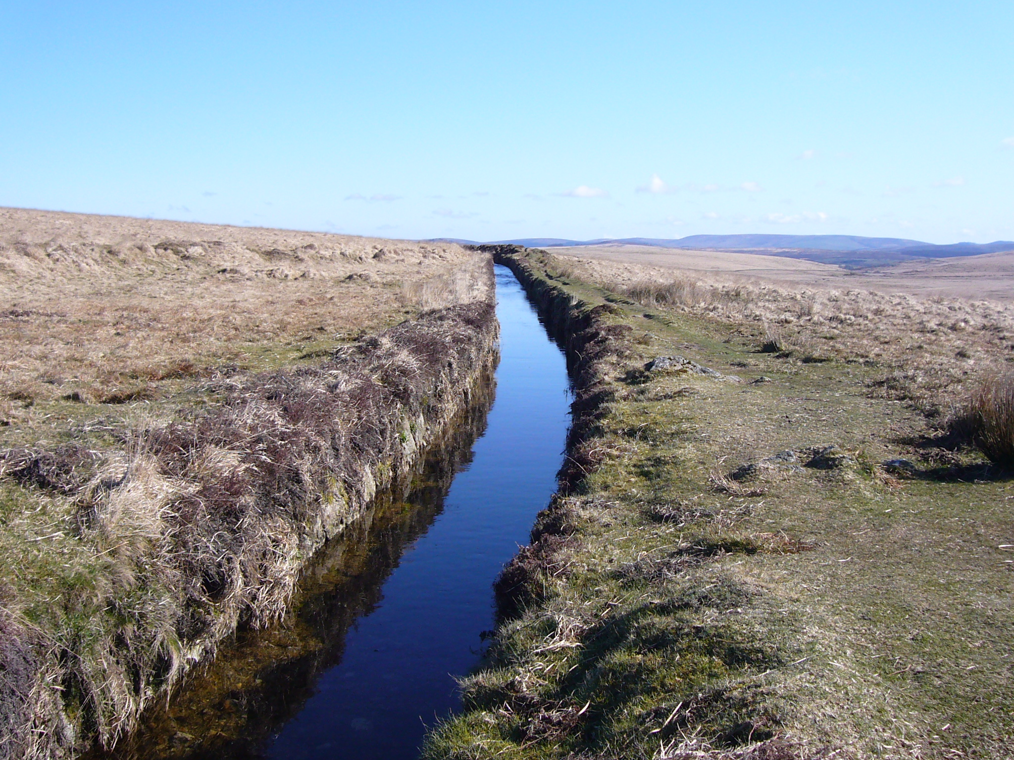 This shows the Devoport leat on Dartmoor close to Nun's Cross Farm looking up stream. This leat is taken from the West Dart & Cowsic rivers and flowed by gravity to Devonport. The length is over 34km and the leat was in use from around the start of the 18th century.